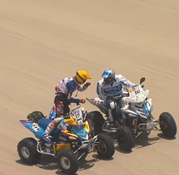 Dakar 2018. Two quad pilots (Olga Rouckova & Machácek) helping each other at Pisco-Ica dunes. Perú. Stage 3. Taken from Video "DAKAR 2018 - Etapa 3. Pisco - San Juan De Marcona" (Barth Racing).